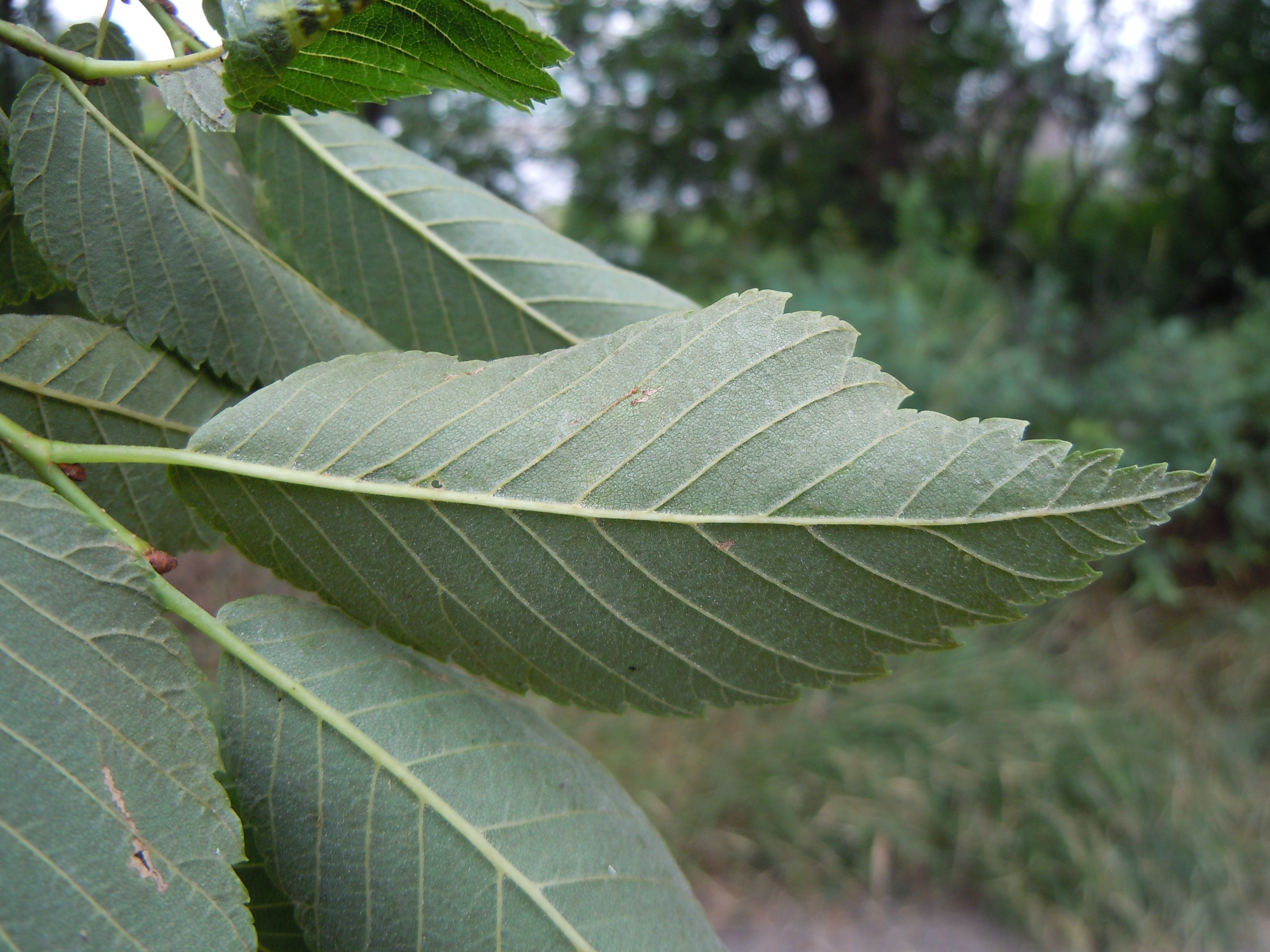 Leaves arranged in distichous fashion and leaf blades with an asymmetrical base and double-serrate margins are characteristics of the Ulmaceae.